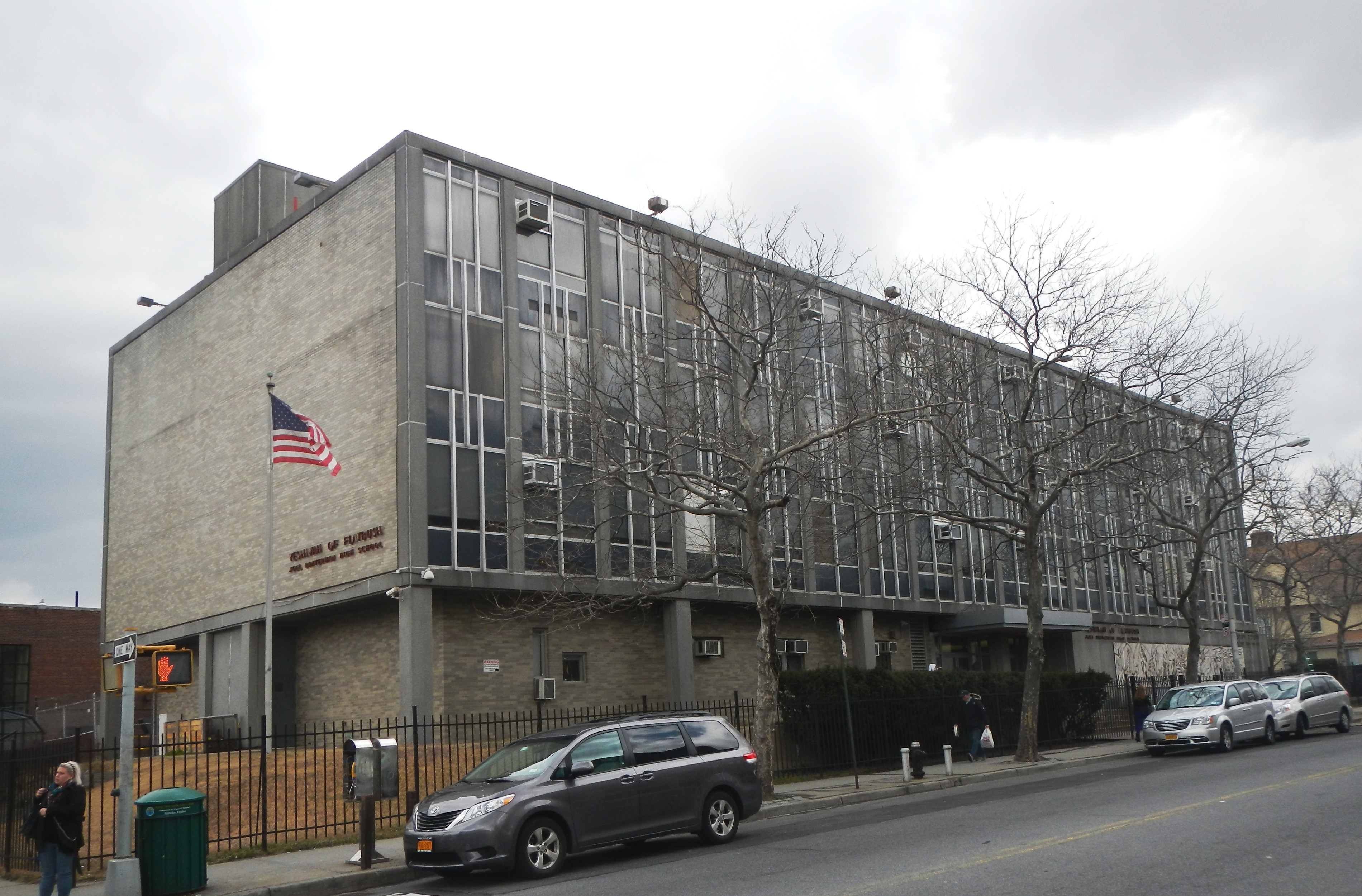 Looking northeast from East 16th Street across Avenue J at school on a cloudy afternoon.